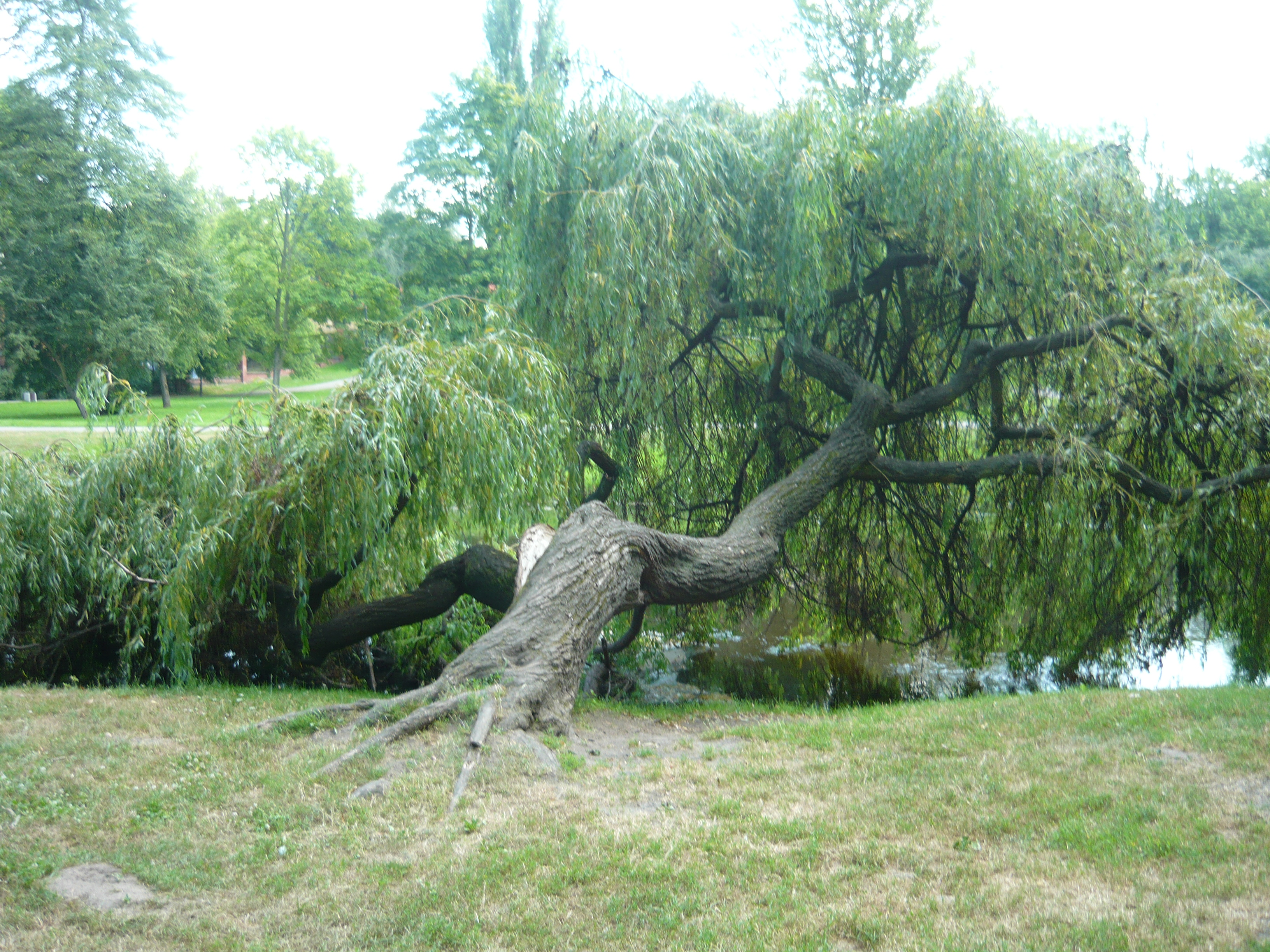 Unusual weeping willow, which trunk is almost lieing on the Zgłowiączka river in Park named of Henryk Sienkiewicz in Włocławek.